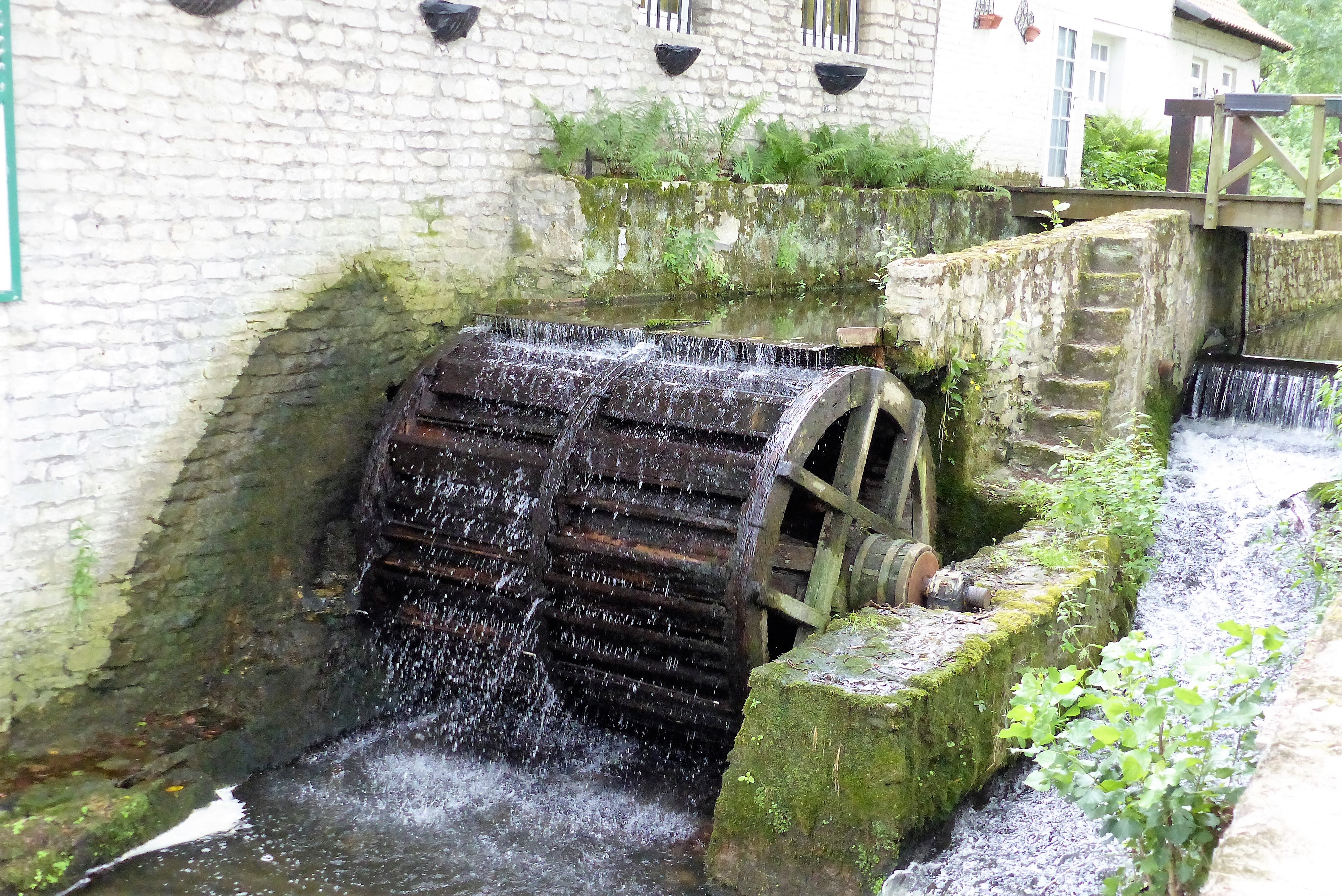 Watermill "Lindemale", Woluwe-Saint-Lambert.